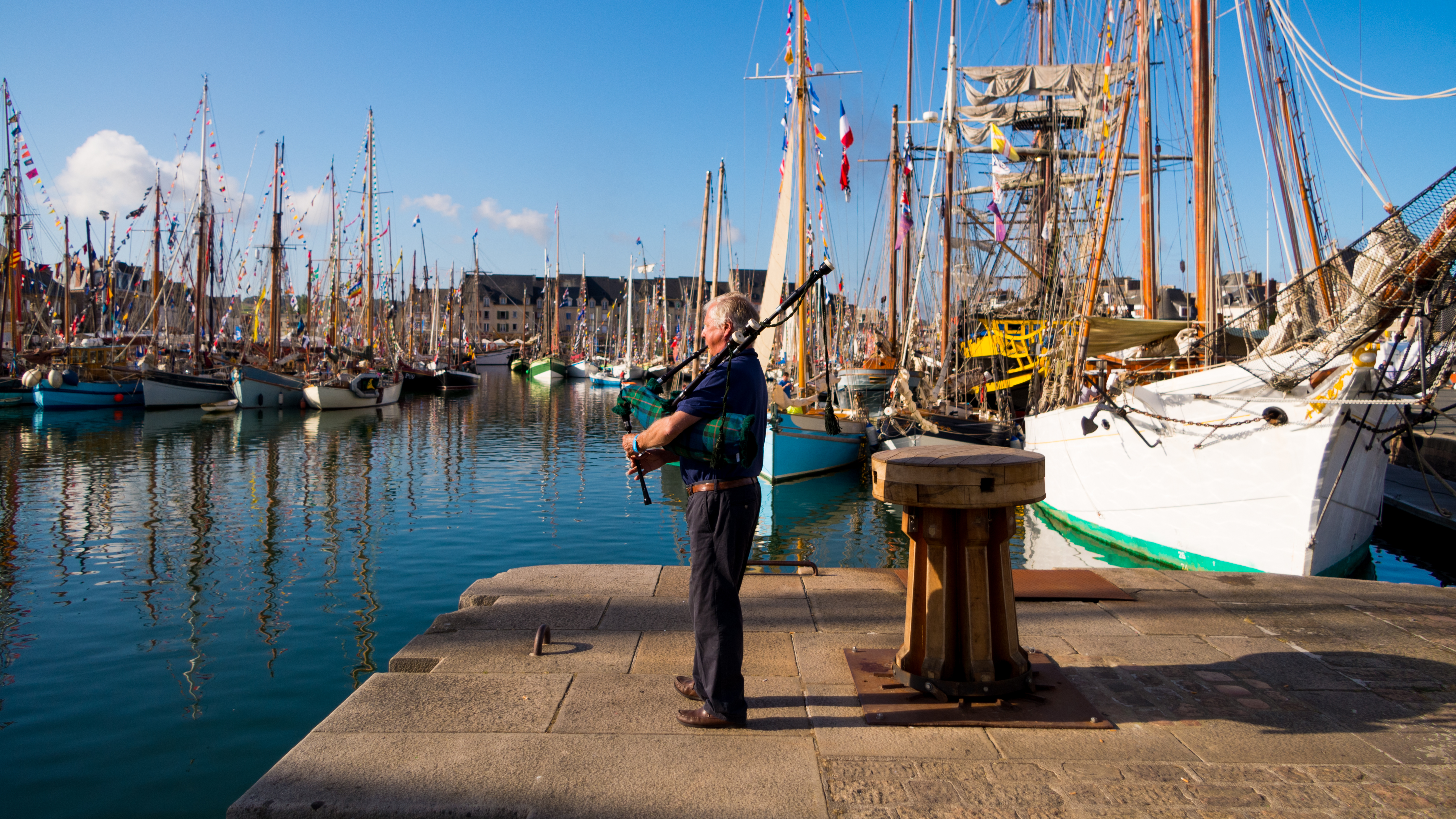 A man plays bagpipe next to Capstan, during the international Celtic-Maritime festival "Festival du chant de marin" in Paimpol (Brittany, FR).